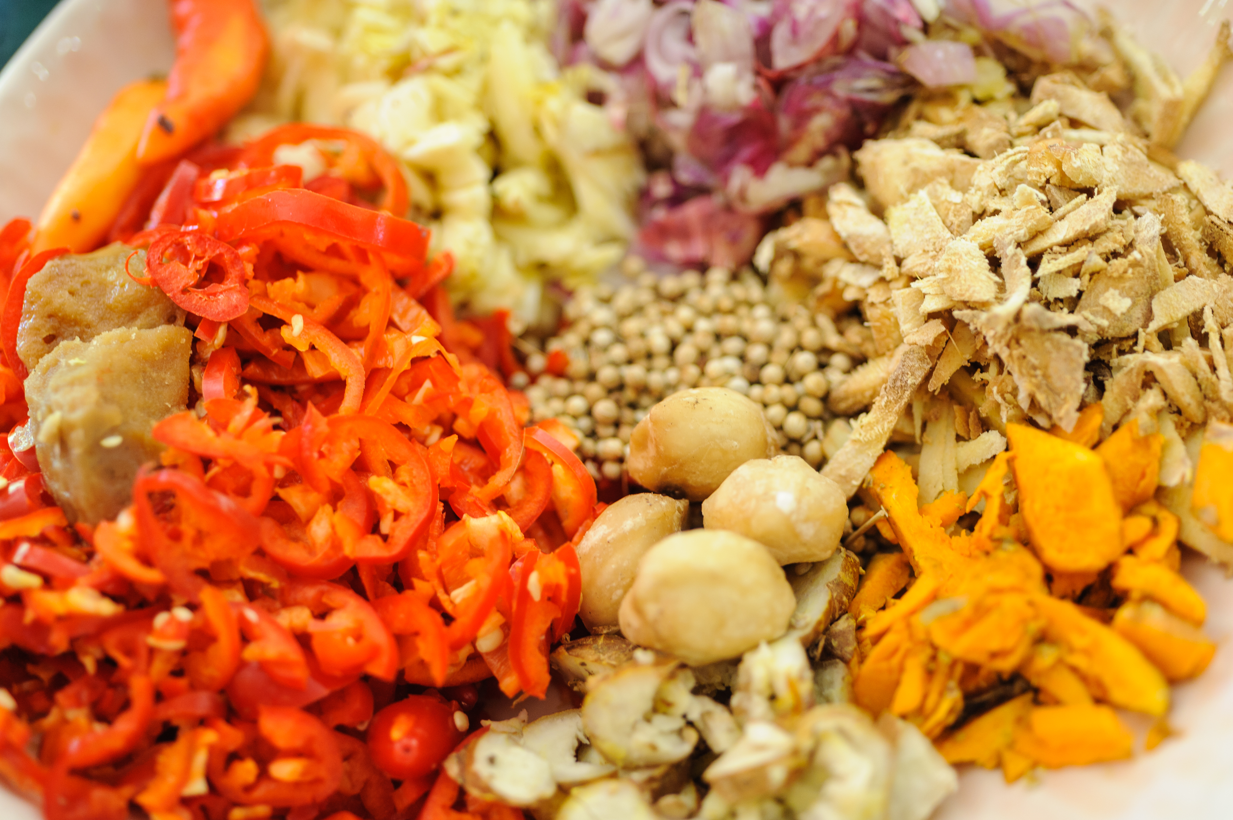 Spices in Ubud, Bali (chili peppers, brown sugar (Gula Jawa), candle nuts, pepper corn, turmeric). Market tour with Casa Luna, Ubud Writers and Readers Festival, Ubud, Bali, Indonesia, 14/10/2013.